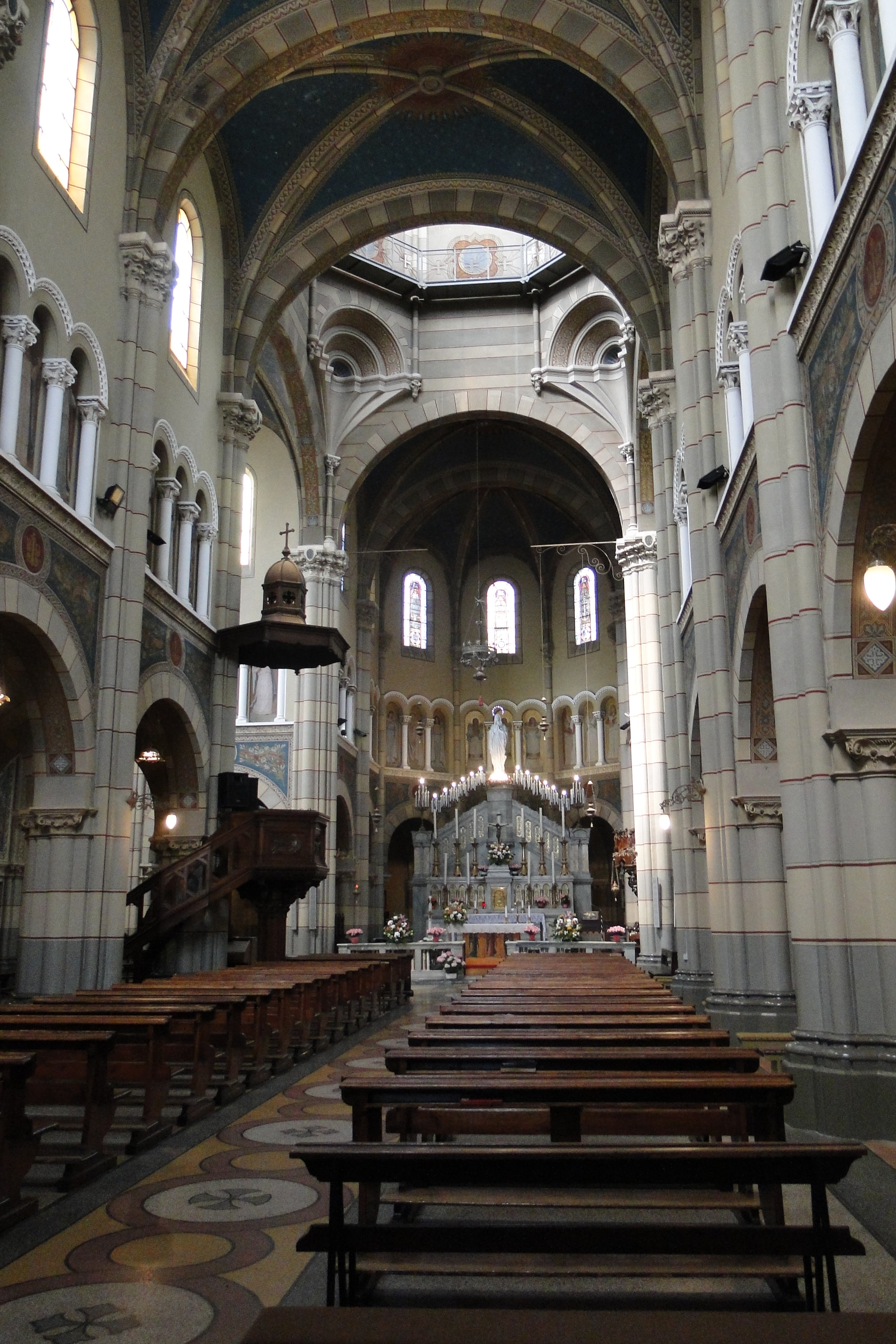 Nave of the Sanctuary of Selvaggio in Giaveno (Italy)